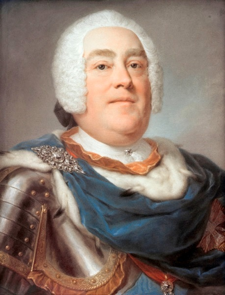 August III of Poland